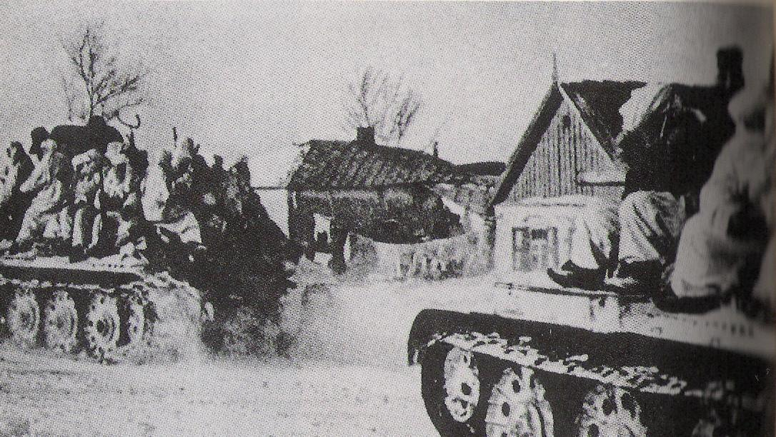 Soviet tanks in action (operation Uranus)